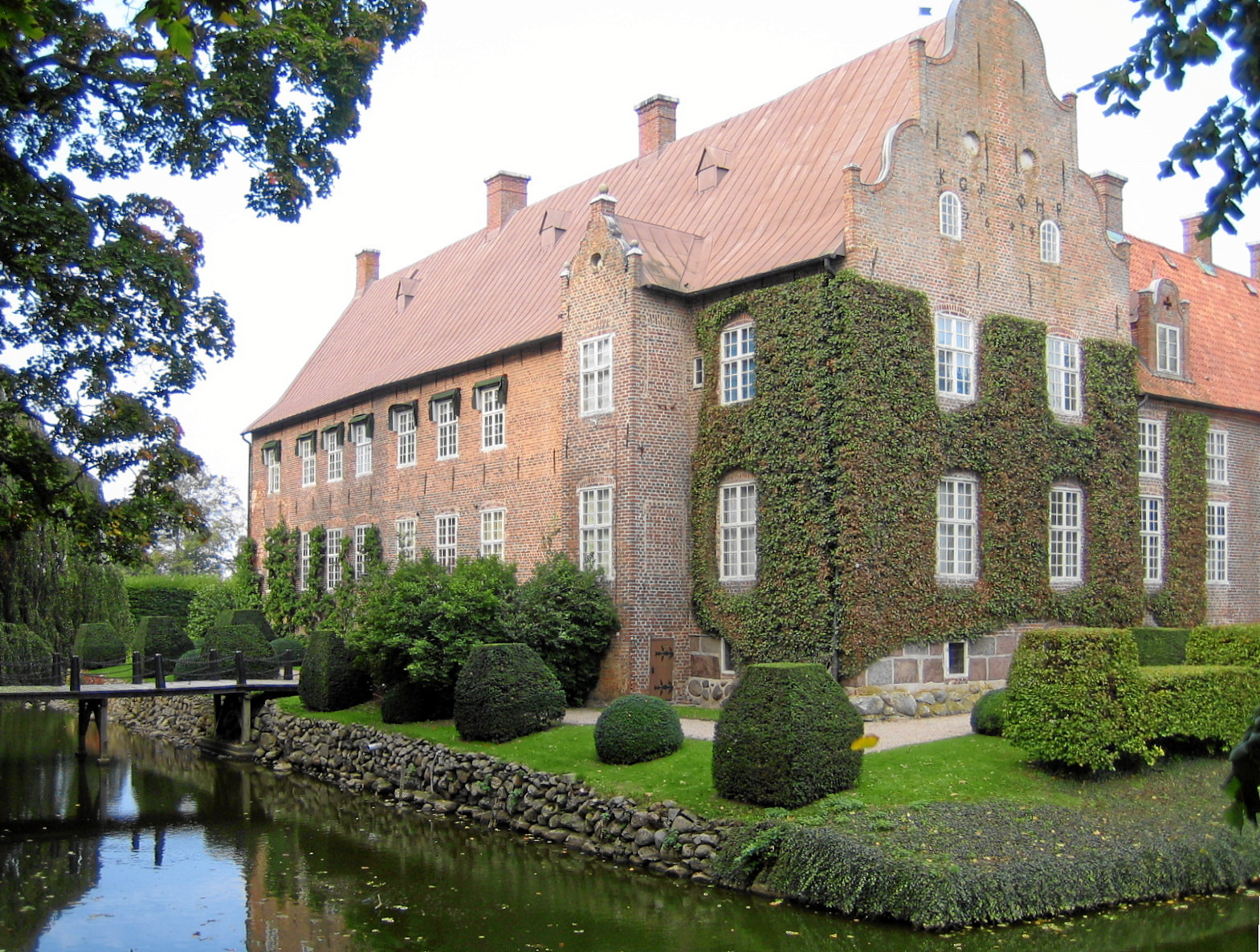 Castle in the Swedish village Trolle Ljungby.